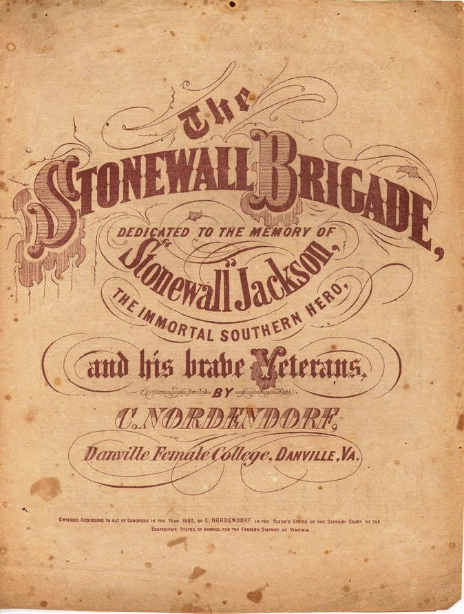 Sheet music entitled "The Stonewall Jackson Brigade, dedicated to the memory of Stonewall Jackson, the immortal Southern hero, and his brave veterans." The Library of Congress, Washington, D. C.